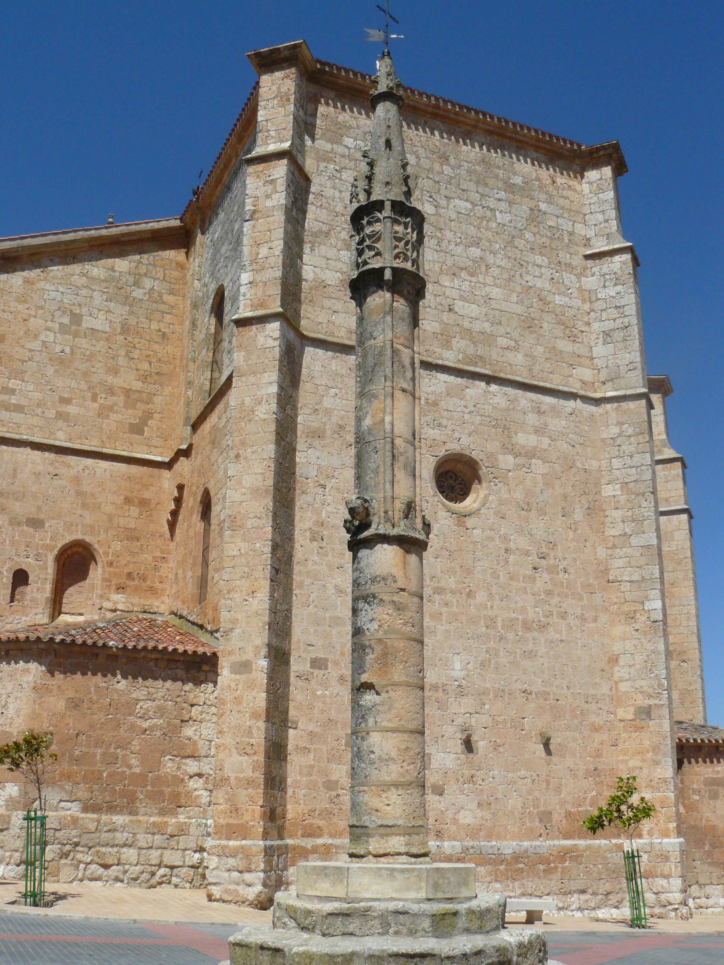 Pillory at Villahoz, Burgos, Spain